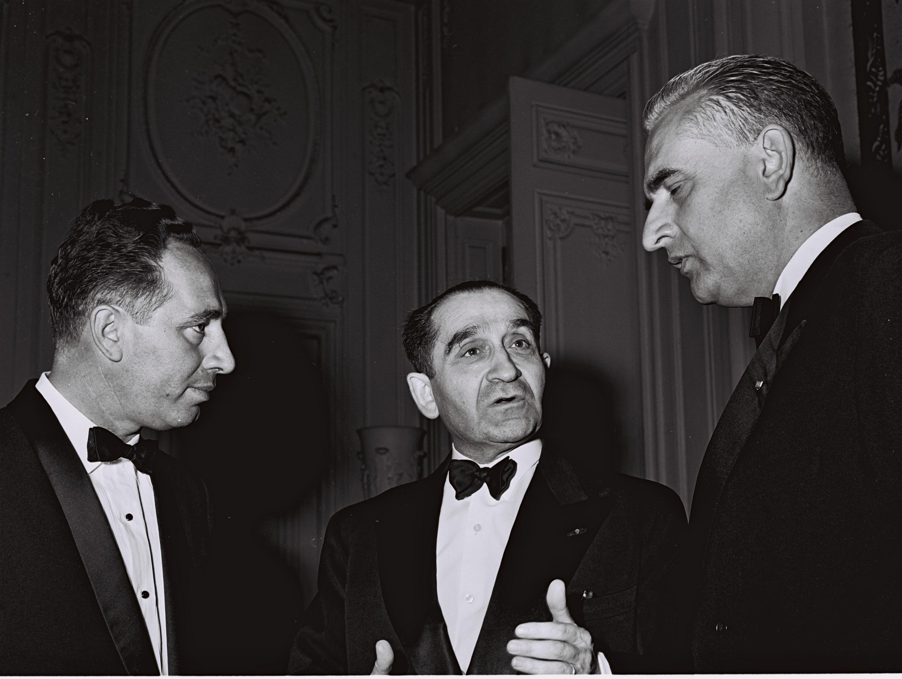 DEP. DEFENCE MIN. SHIMON PERES, FORMER FRENCH P.M. MENDES FRANCE & MIN. OF EDUCATION CHRISTIAN FOUCHET IN CONVERSATION AFTER DINNER GIVEN BY ISRAEL AMB.EITAN IN PARIS.